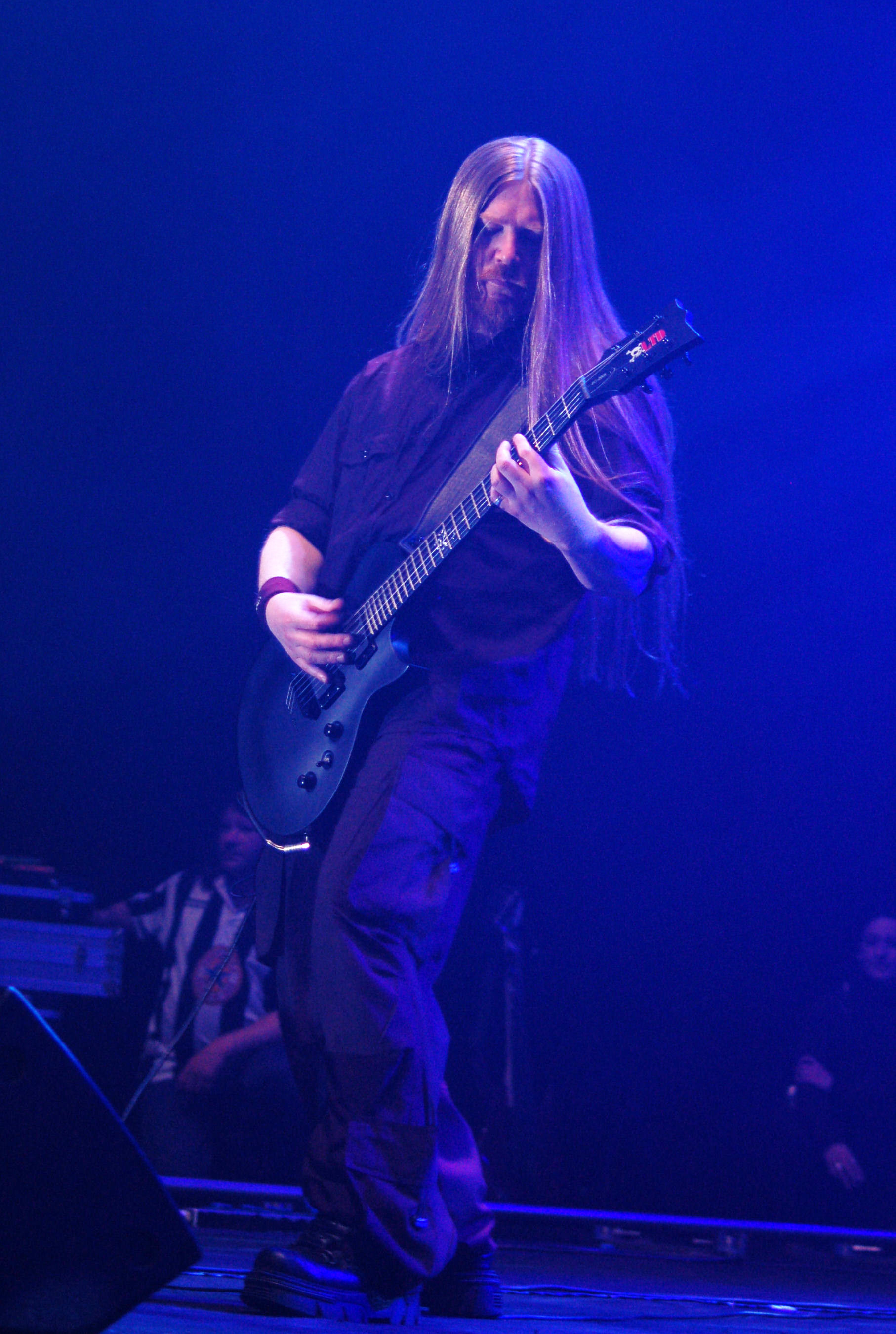 Andrew Craighan from My Dying Bride during Metalmania 2007 festival